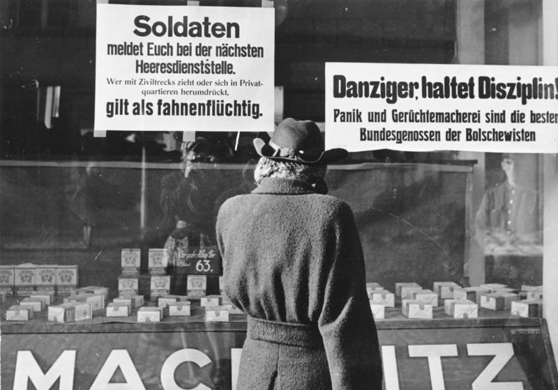 (left sign) Soldiers, report to the nearest army base. Anyone who travels with civilian convoys or loiters in private quarters is considered a deserter. (right sign) People of Danzig, stay disciplined! Panic and rumor-mongering are the best allies of the Bolsheviks!